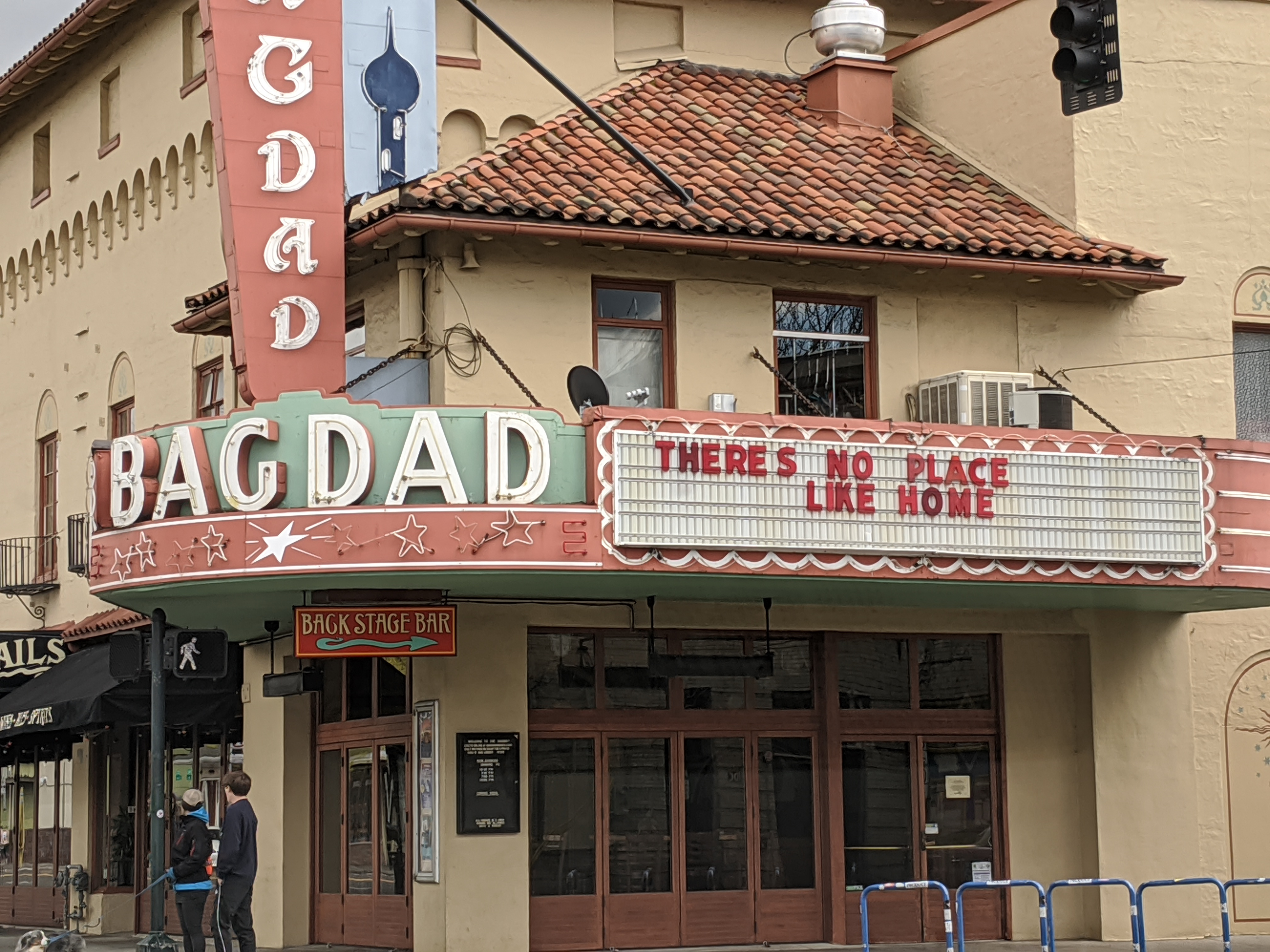 Bagdad Theater entrance and sign, with channel lettering stating "THERES NO PLACE LIKE HOME"